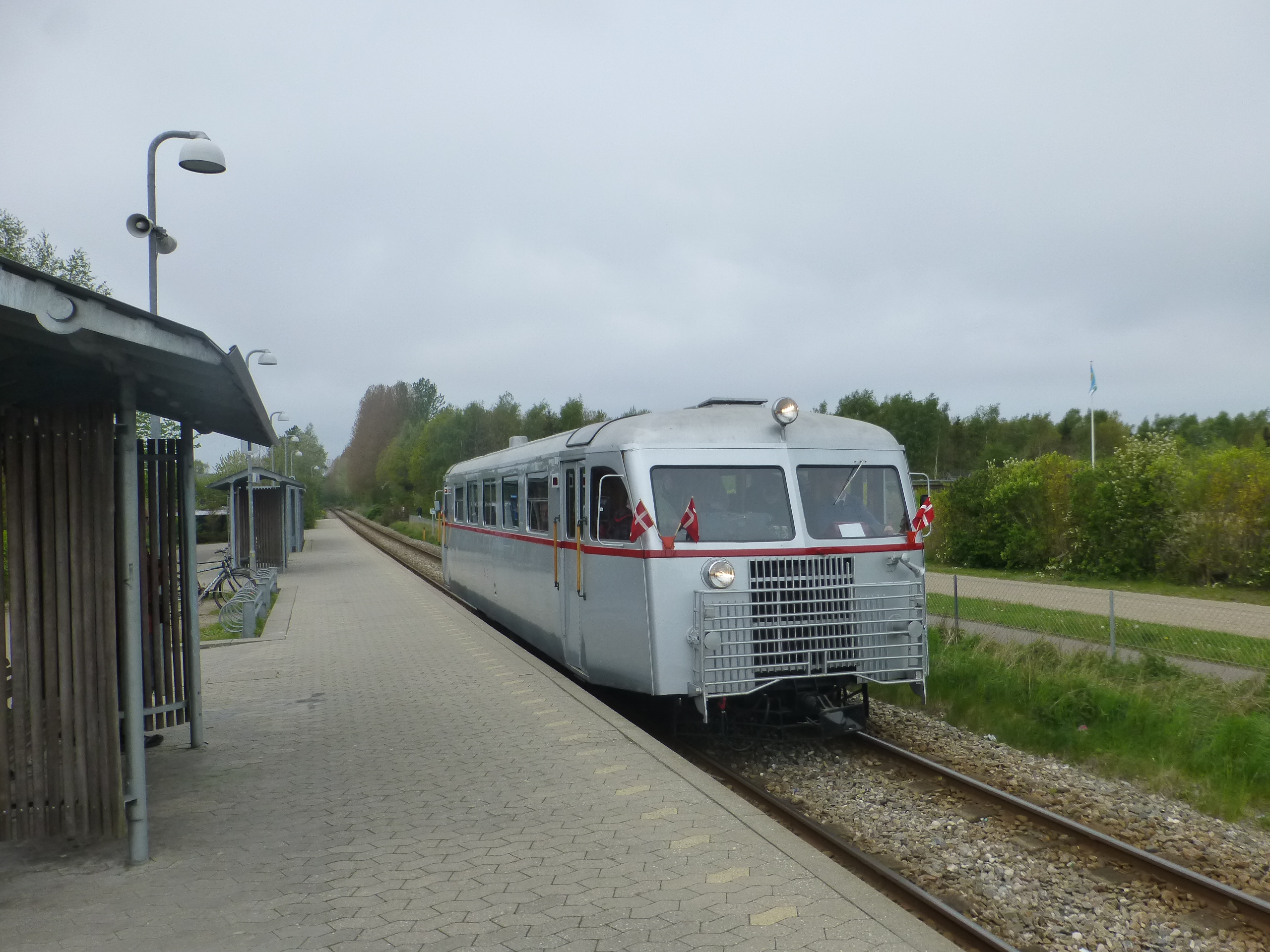 The diesel railcar LNJ SM 13 at Godhavn Station on Gribskovbanen in Denmark during a special trip with railway entusiasts.